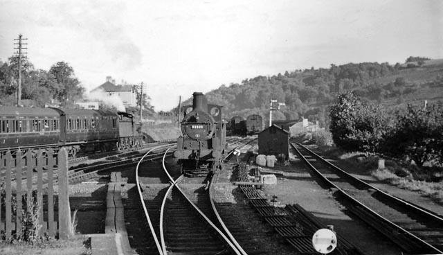 Brecon Station: activity at the east end. Viewed from the east end of Brecon station, an ex-L&Y 0-6-0, far from its origins 'Up North' but now employed on the ex-Midland trains from Hereford, is prominent, while on the left a stopping train leaves for Hereford (hauled by an ex-Midland 0-6-0). However, Brecon station was in the ex-GWR ambit, being the terminus from this (eastward) direction of the ex-Brecon & Merthyr trains from Newport via Torpantau Summit and of the ex-Cambrian Rly Mid-Wales Line trains from Moat Lane Junction, as well as the Hereford trains. Westwards from Brecon ran the ex-Neath & Brecon trains down to Neath. All these lines were closed in 1962 and on 31/12/62 this local metropolis had lost all railway facilities. See SO0428 : Brecon Station for primary picture of Brecon Station, taken on 15/6/62.